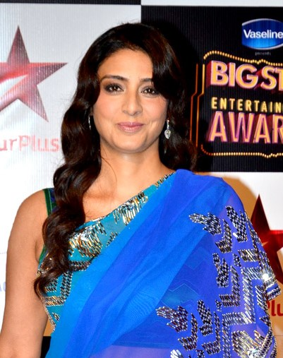 BIG Star Awards 2014